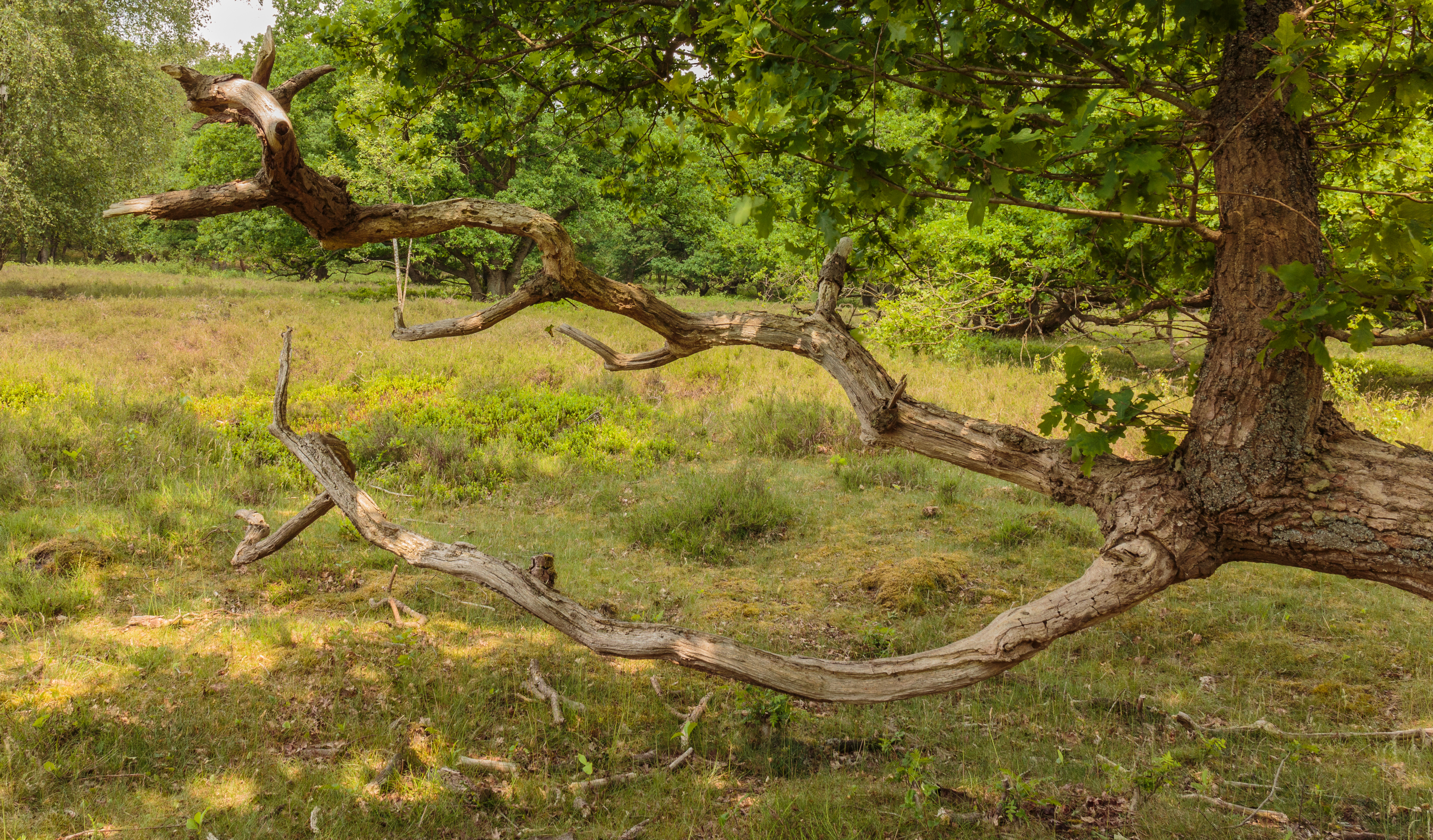 Walk through the Strubben-Kniphorstbos. Detail of an oak. The Strubben-Kniphorstbos is a 377 hectare nature reserve. It is the only archaeological reserve in the Netherlands.